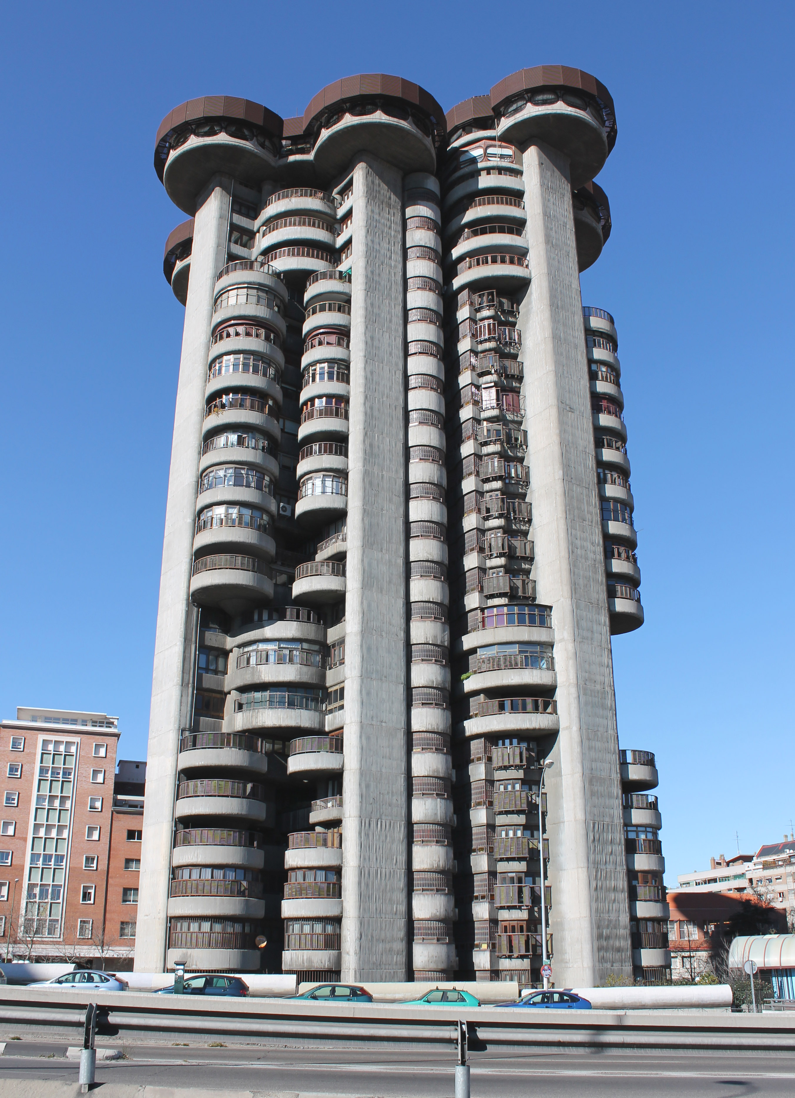 Façade of Torres Blancas building in Madrid (Spain).